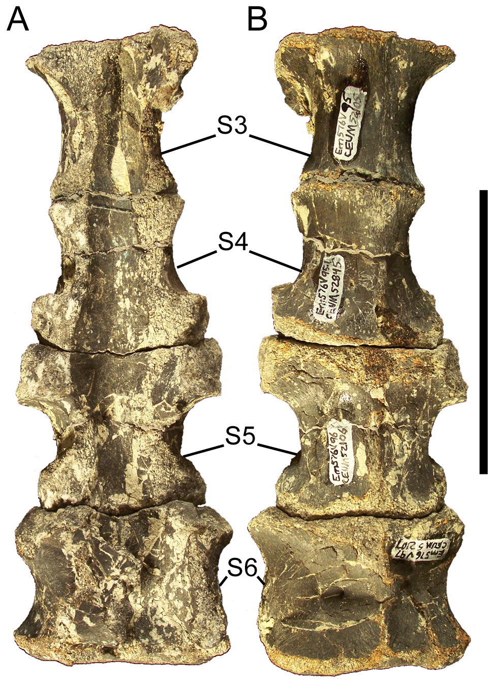 Sacral vertebrae of Eolambia. Articulated S3–S6 (CEUM 52105, 52845, 52106, and 52107; WS8) in (A) dorsal and (B) ventral views. Scale bar equals 10 cm.